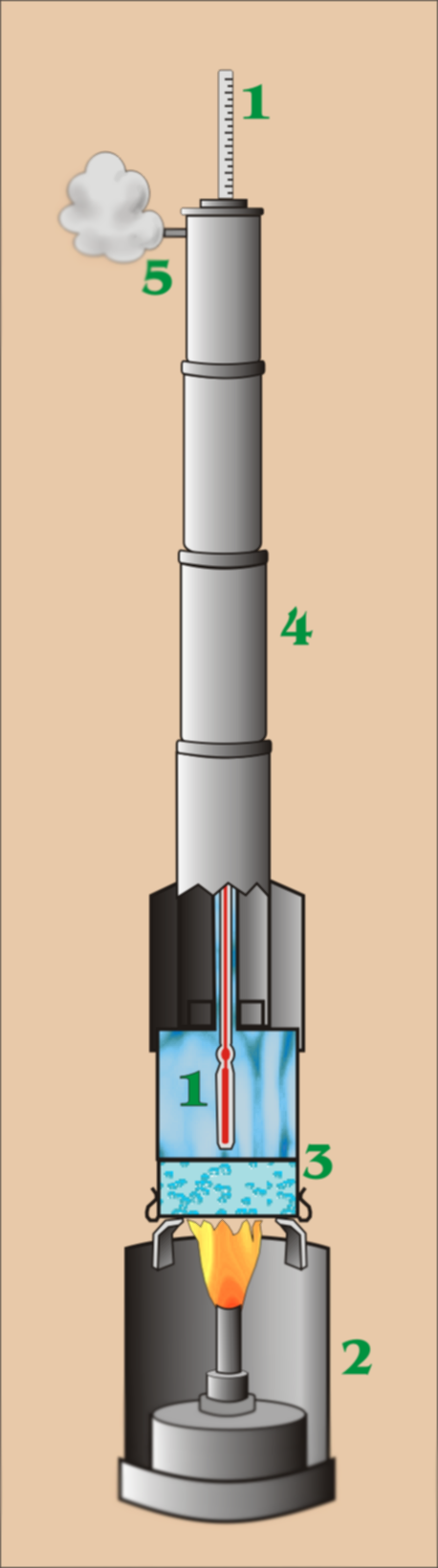 I don't do art for a living, neither for personal nor professional propaganda. I don't make any drawings for money. Thanks.